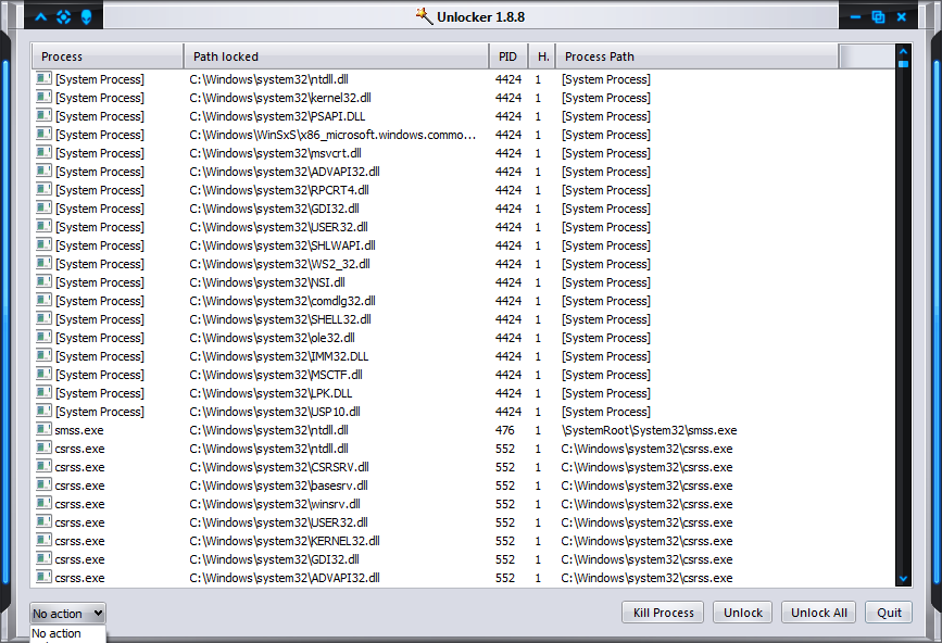 Screenshot of Unlocker 1.8.8